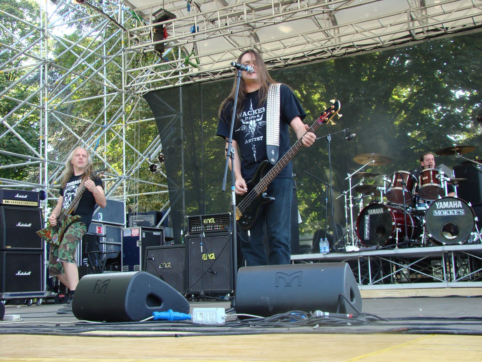 Sodom live at Evolution Fest 2007.